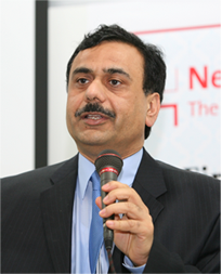 A photo of Tewari that I took at the AUA Symposium 2008.